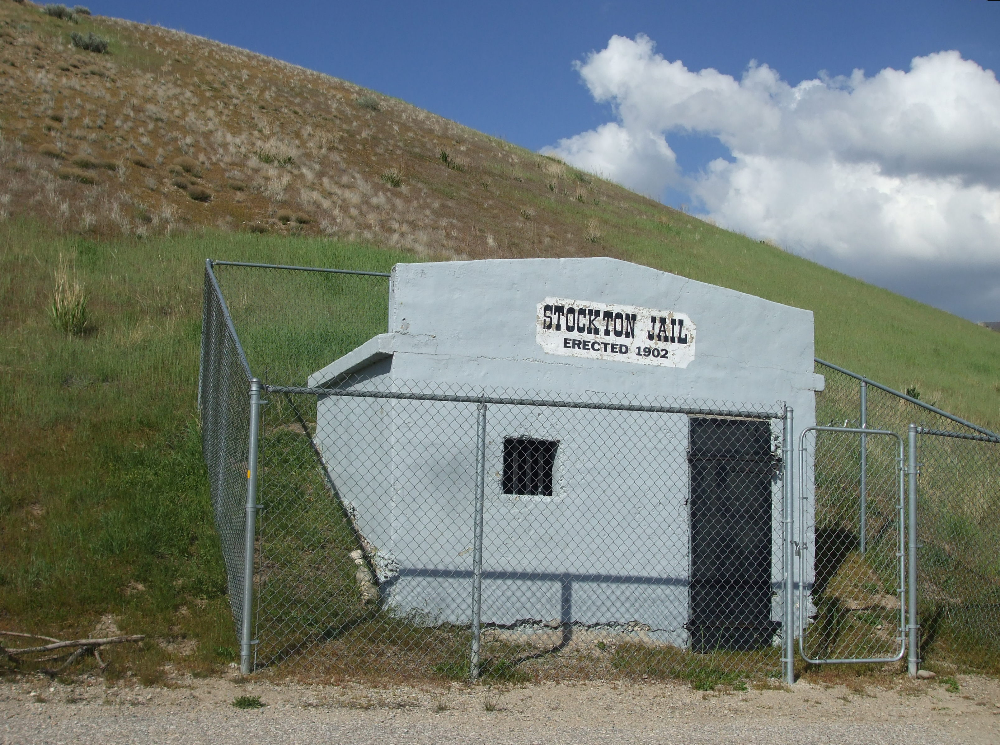 The old Stockton Jail, a historic building in Stockton, Utah, United States.